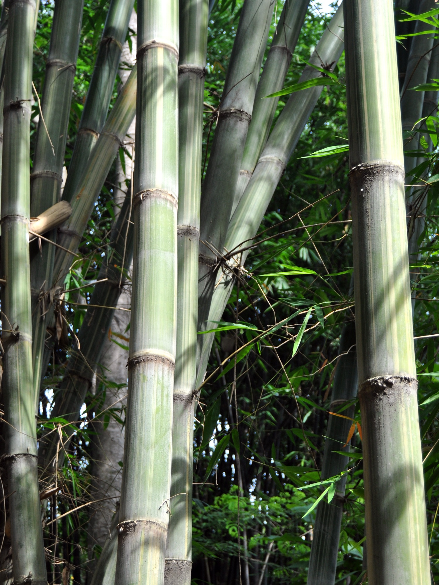 Maxima bamboo (Gigantochloa pseudoarundinacea); middle culms. From Kuningan, West Java, Indonesia.